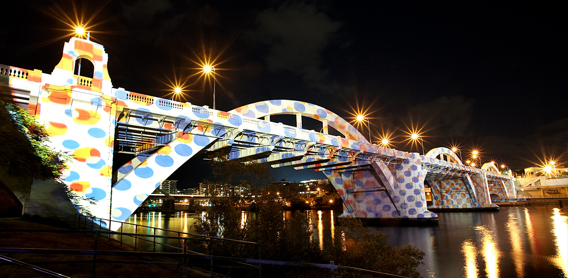 By Ian De Gruchy (2009) Pixels are the tiny dots of lights that are the basic units from which digital images are composed. De Gruchy used pixels, on three different projections, as a way of deconstructing the creative and technical processes of photography and projection.